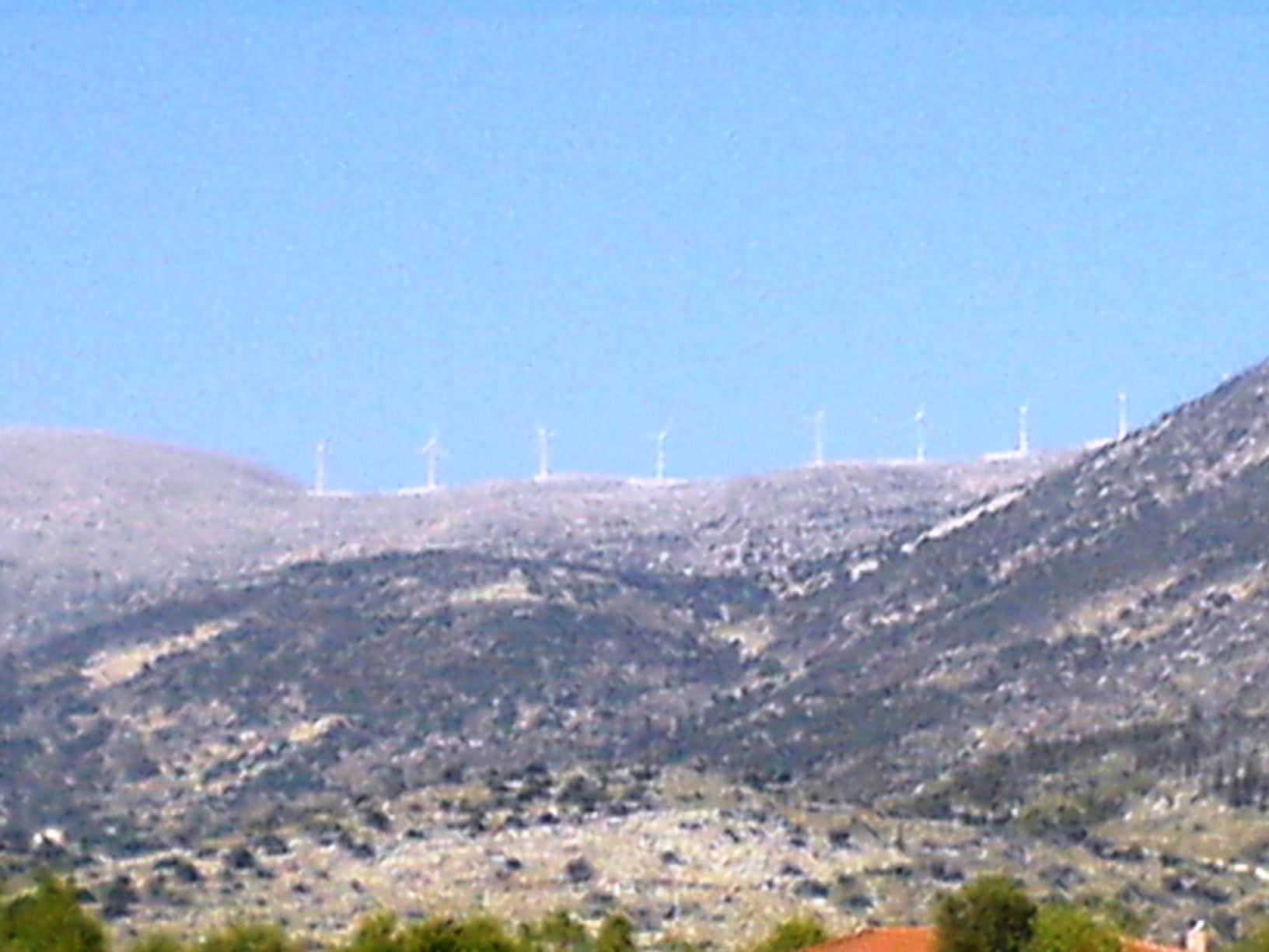 Manolati Xerolimpa wind park in Kefalonia, Greece